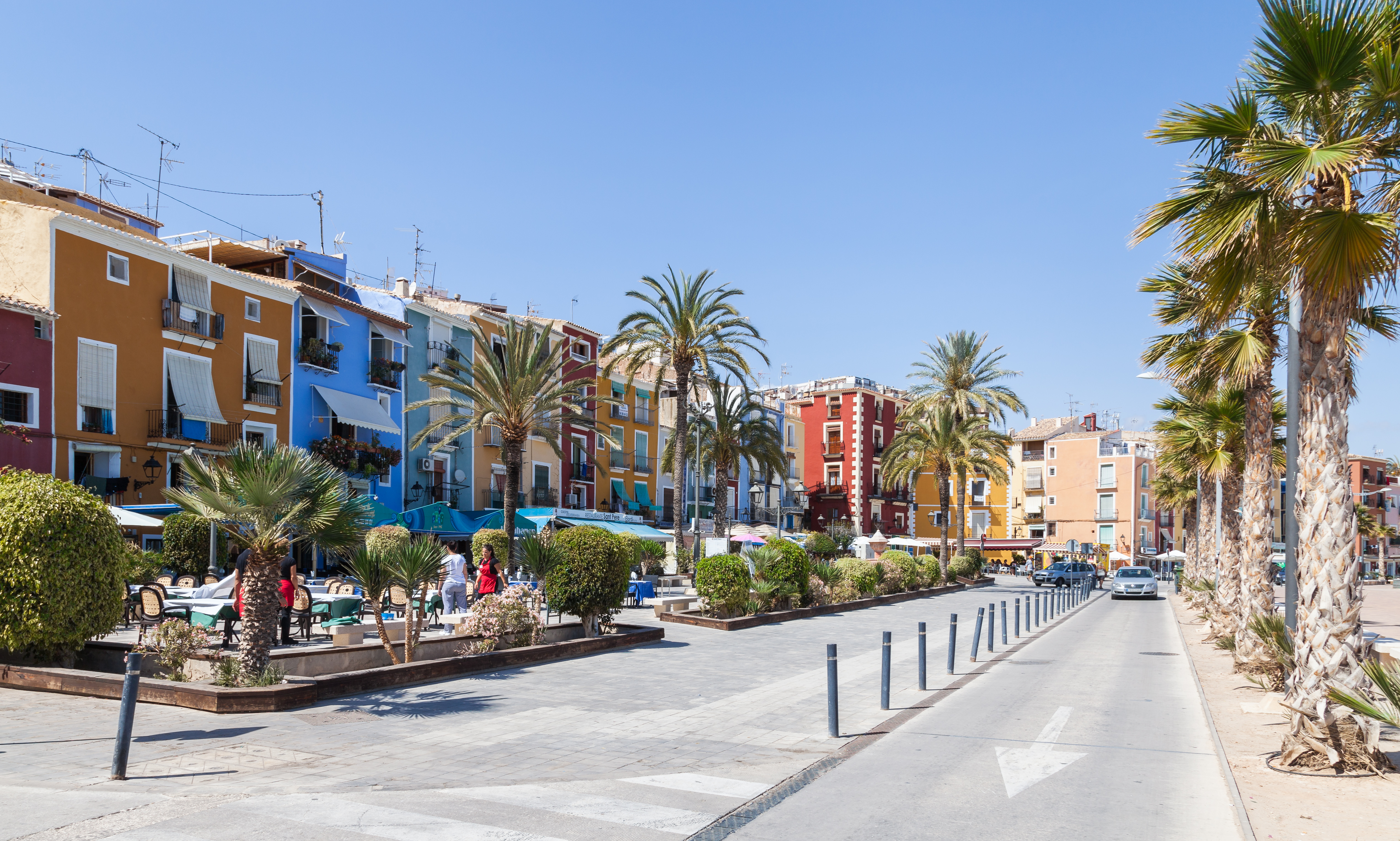 Villajoyosa, Spain